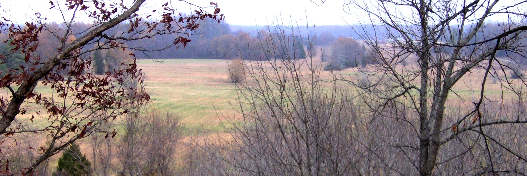 View from atop Sauls' Mound (looking east) at Pinson Mounds State Archaeological Area in Madison County, Tennessee, located in the Southeastern United States. Sauls' Mound is the second-highest prehistoric mound in the U.S. The view is roughly in the direction of the Summer solstice sunrise.